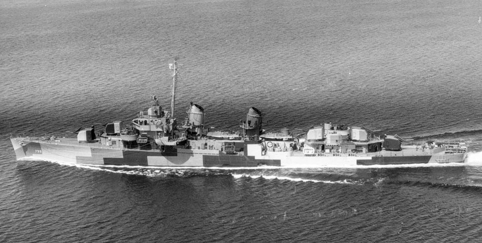 The U.S. Navy destroyer USS Jarvis (DD-799) underway, circa 1944.